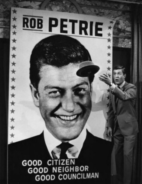 Publicity photo of Dick Van Dyke from The Dick Van Dyke Show. The episode deals with Rob Petrie's decision to run for local councilman.